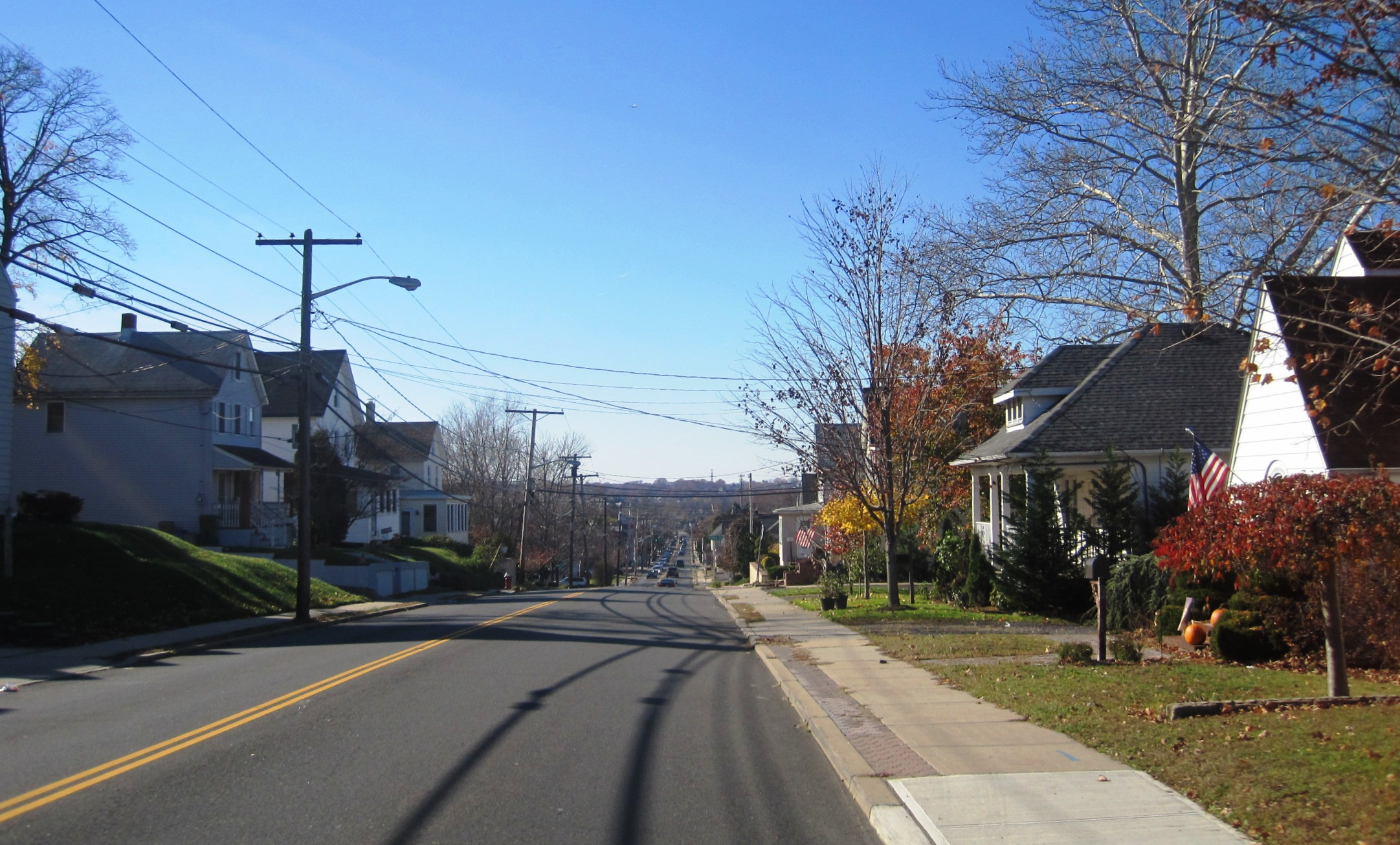 Photo of Sayreville, New Jersey taken along southbound Washington Road (County Route 535) at French Street in Tangletown neighborhood